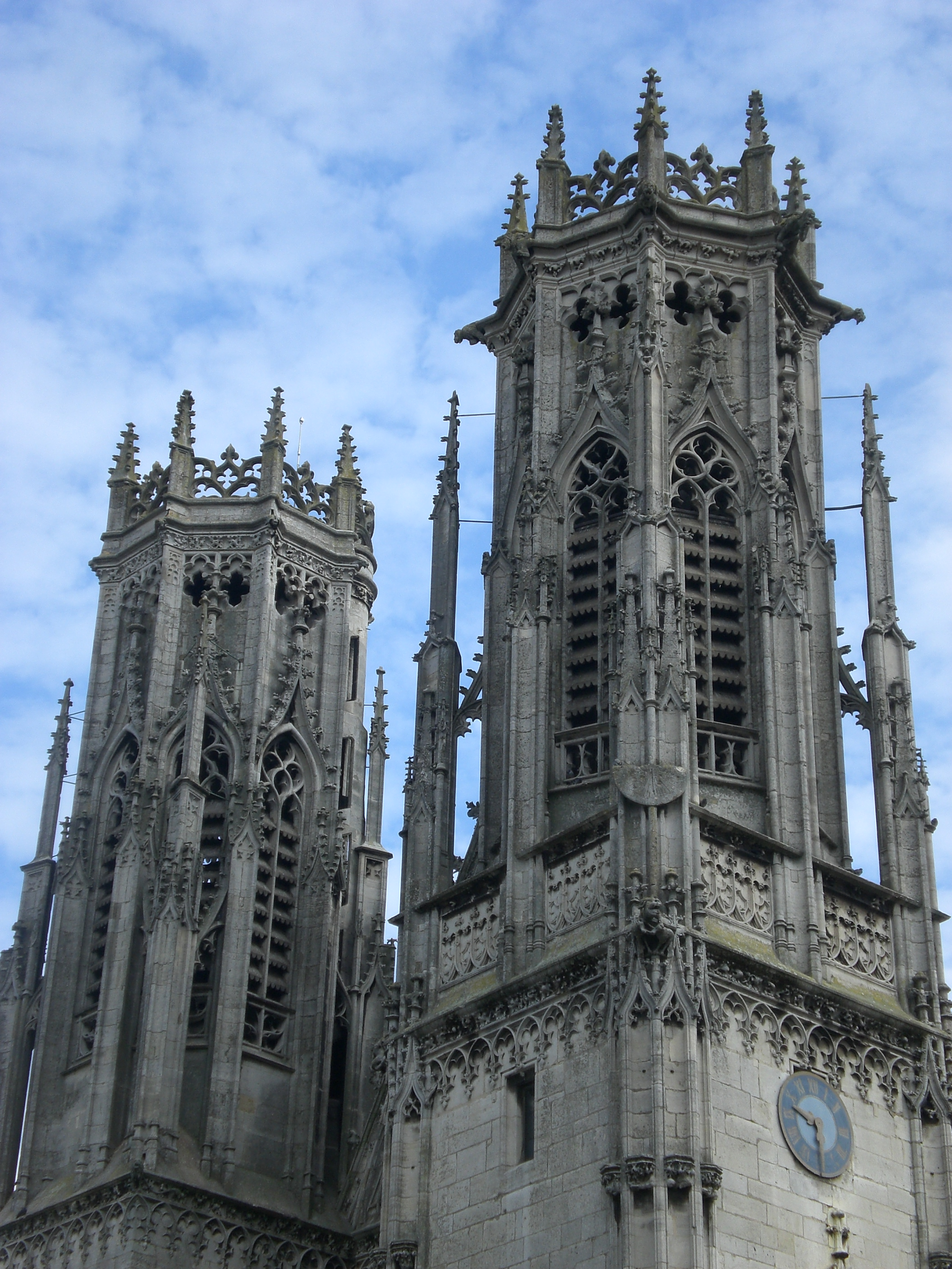 Pont-à-Mousson, St. Martin's Church, XV Century